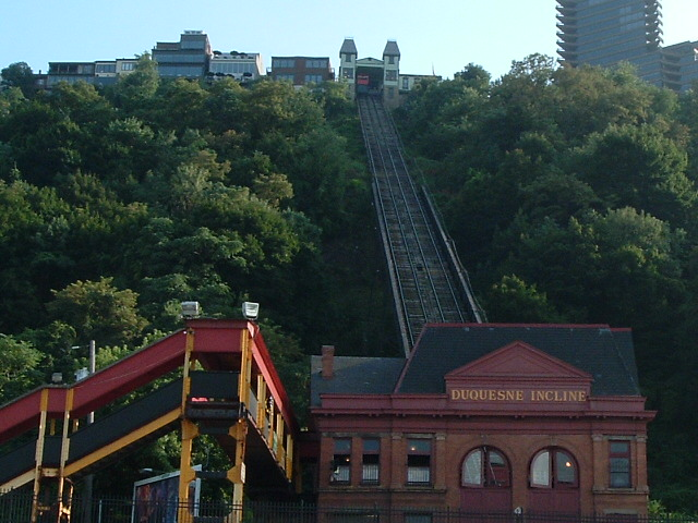 Duquesne Incline, Pittsburgh, Pennsylvania, U.S., with full length parallel tracks.